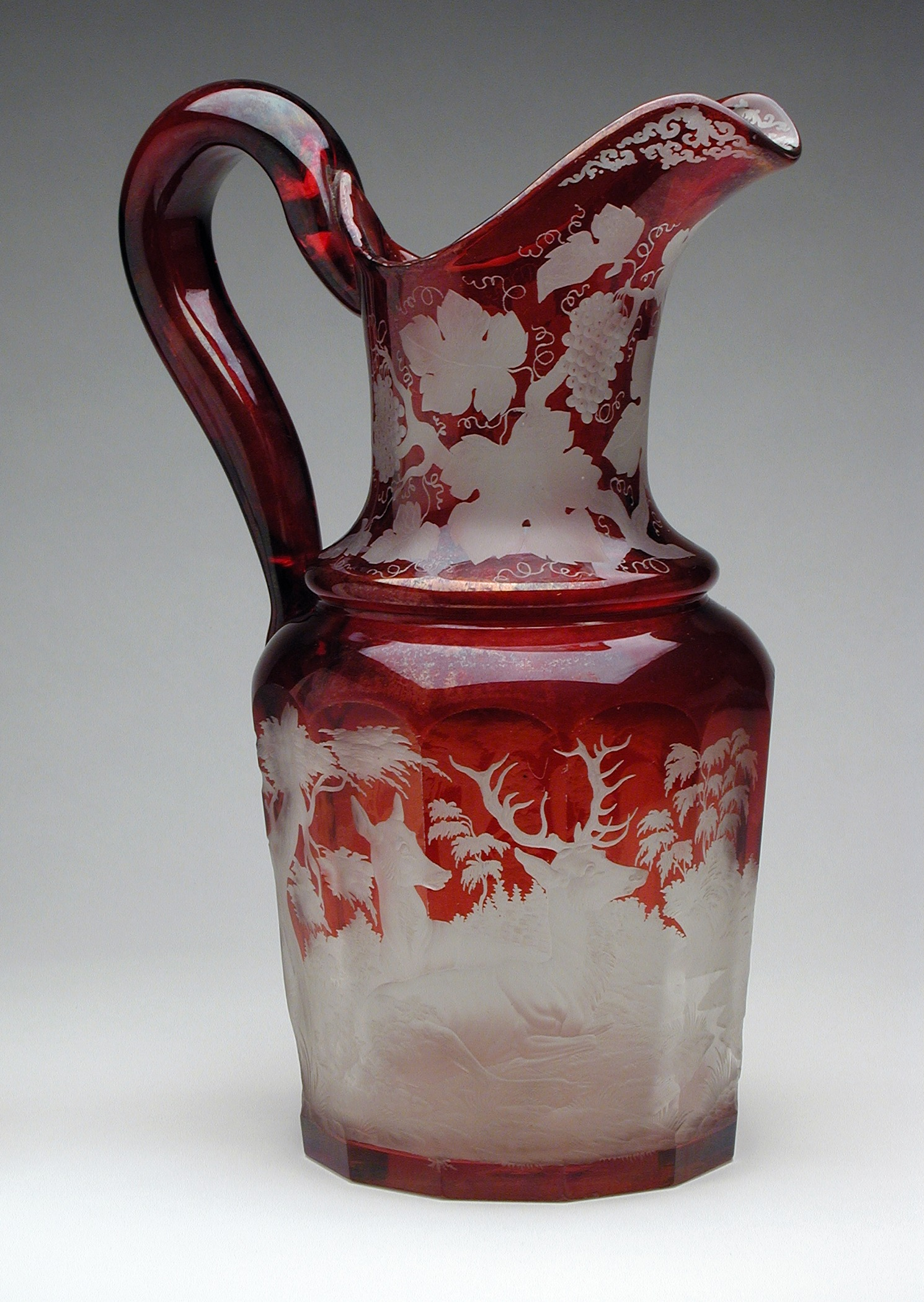 Bohemia, circa 1840-1860 Furnishings; Serviceware Ruby-flashed glass Gift of Col. and Mrs. George J. Denis (33.2.1) Decorative Arts and Design